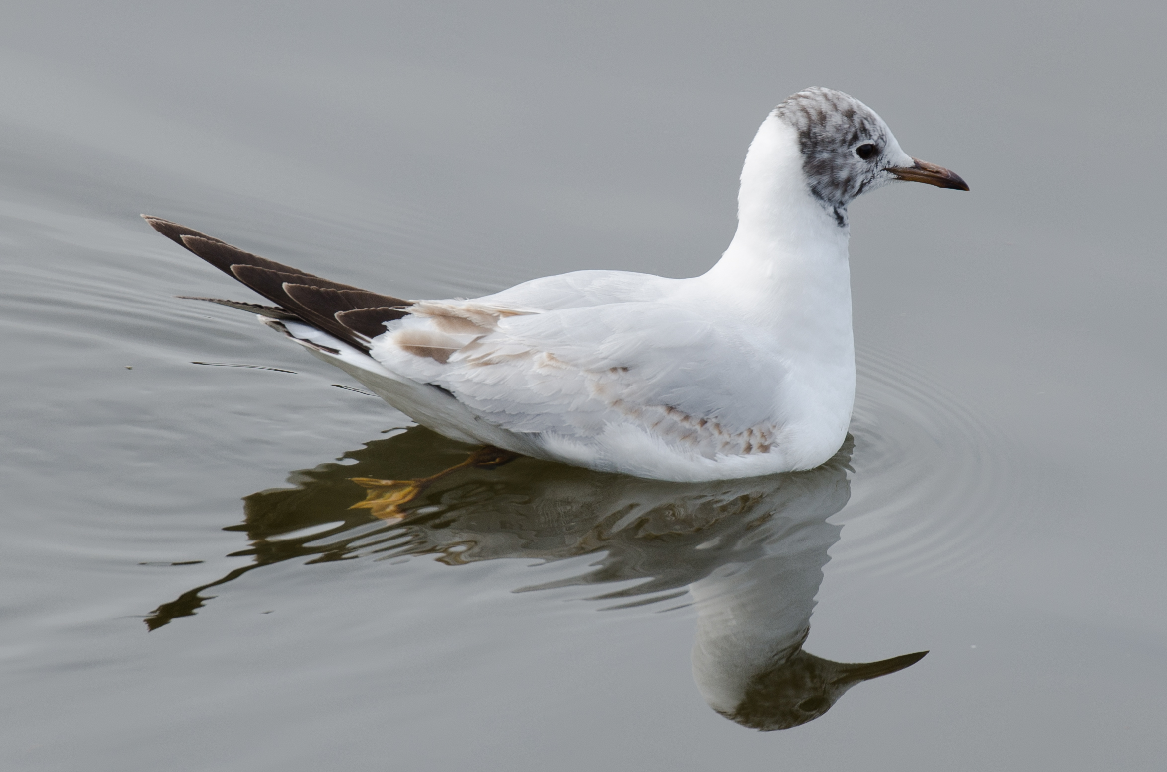 Black-headed Gull (Chroicocephalus ridibundus) . Kvarnholmen, Nacka (Sweden).